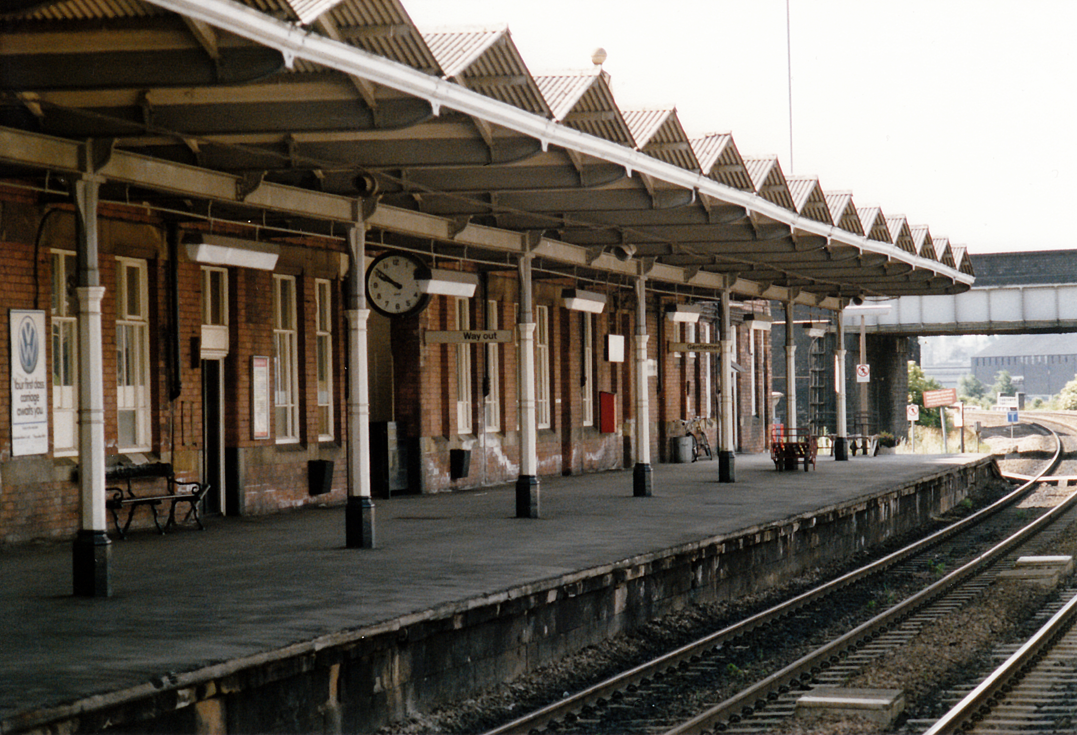 Platform 4 Rotherham Masborough Station 10/7/86